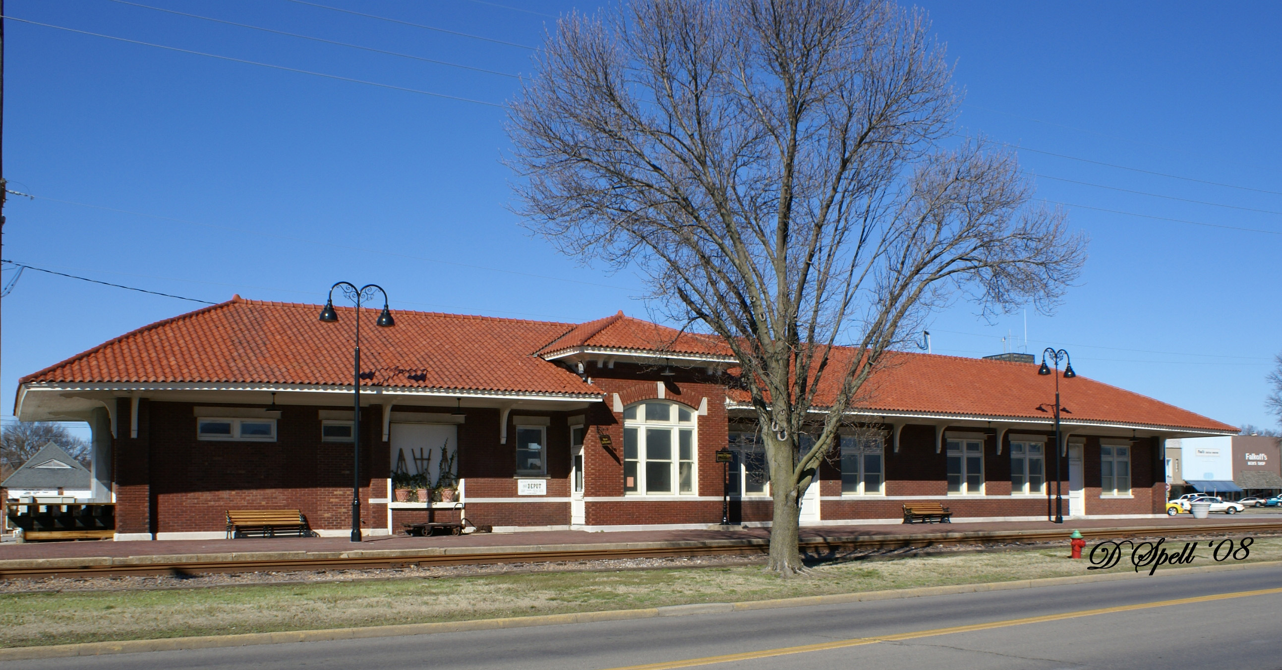 Sikeston St. Louis, Iron Mountain and Southern Railway Depot, Front St. between Scott and New Madrid Sts. Sikeston